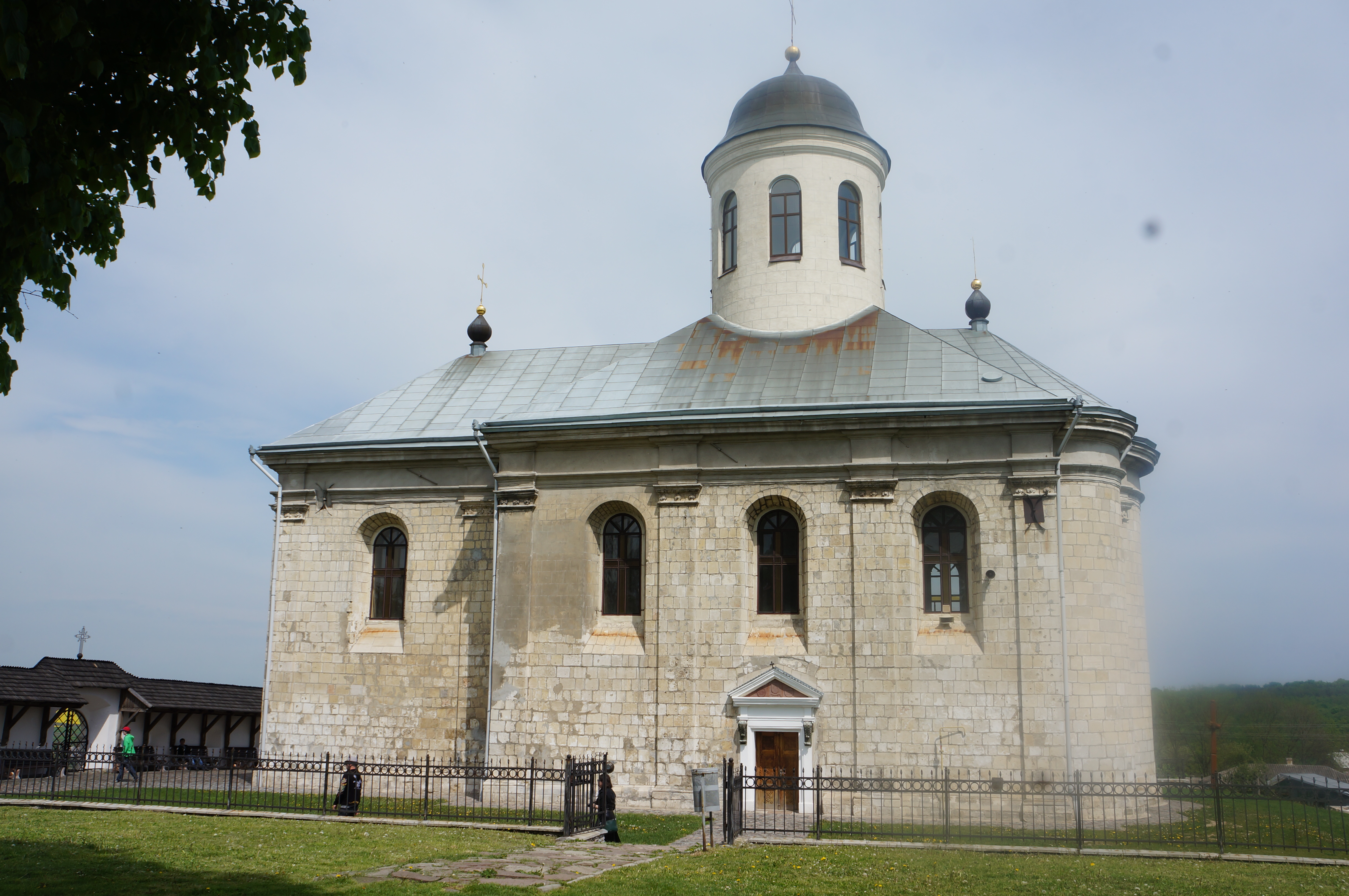 Assumption Church in Krylos